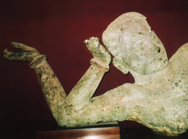 Status of Vishnu at West Mebon (Present day at National Museum, Phnom Penh ភាសាខ្មែរ: បដិមាព្រះវិស្ណុផ្ទំនៃប្រាសាទមេបុណ្យខាងលិច (សព្វថ្ងៃស្ថិតក្នុងសារមន្ទីរជាតិ ក្រុងភ្នំពេញ)